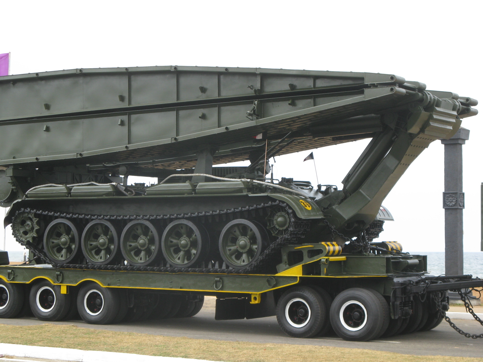 MT-55A Armored Vehicle-launched Bridge - Sri Lanka Army